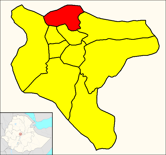 Map of the district (subcity) of Gullele (shown in red) within the city of Addis Ababa (yellow).